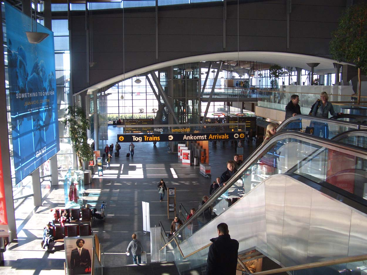 Oslo Airport; To the arrivals hall and train station